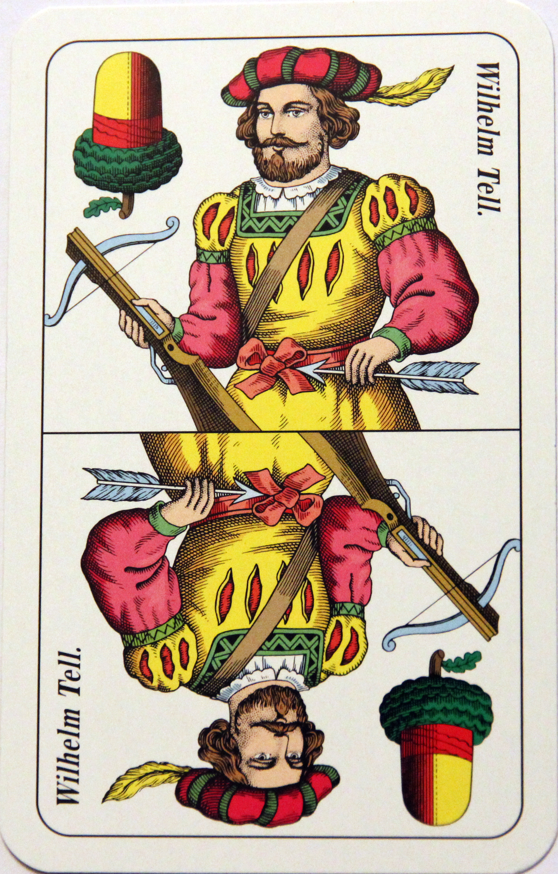 The Ober of Acorns in a Double German (William Tell) pack, depicting William Tell